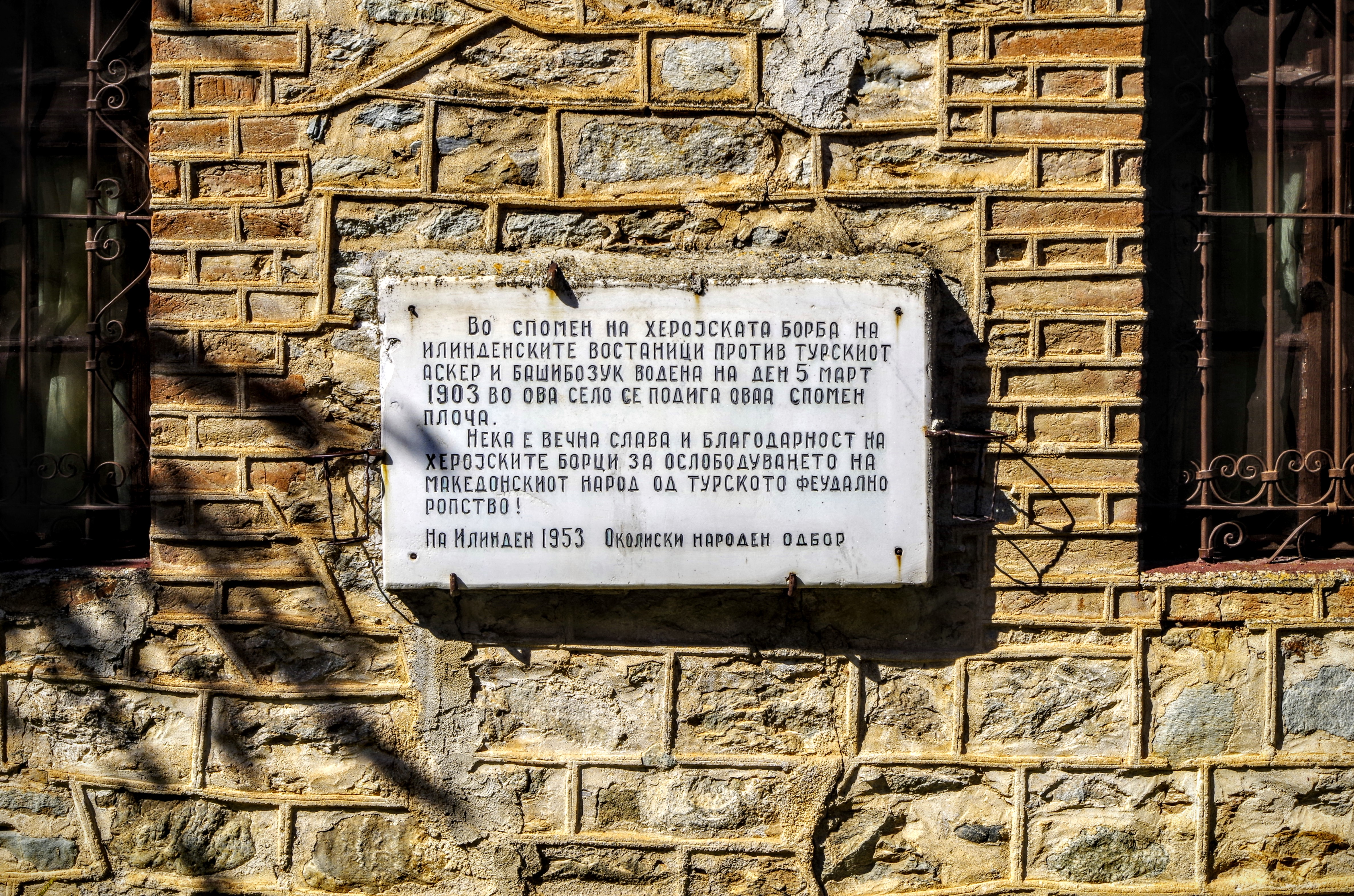 View of the plaque in the village Ljubojno